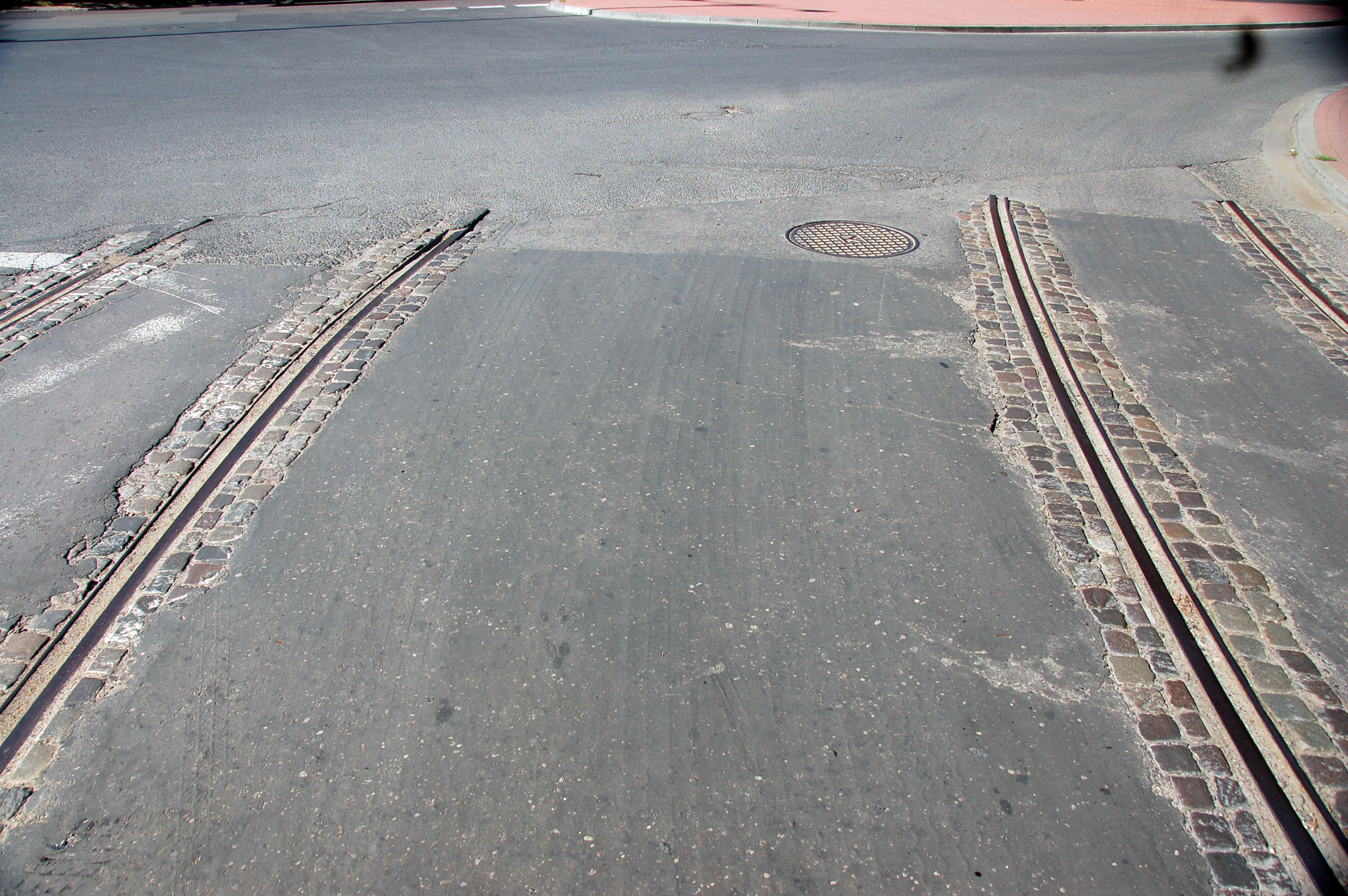 Picture taken in Gdańsk after Wikimania 2010 conference.